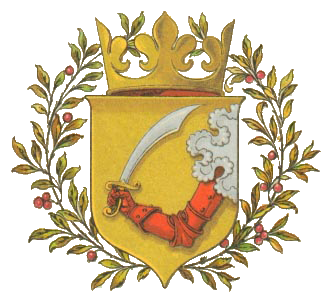 Coat of arms of Bosnia and Herzegovina in 1918